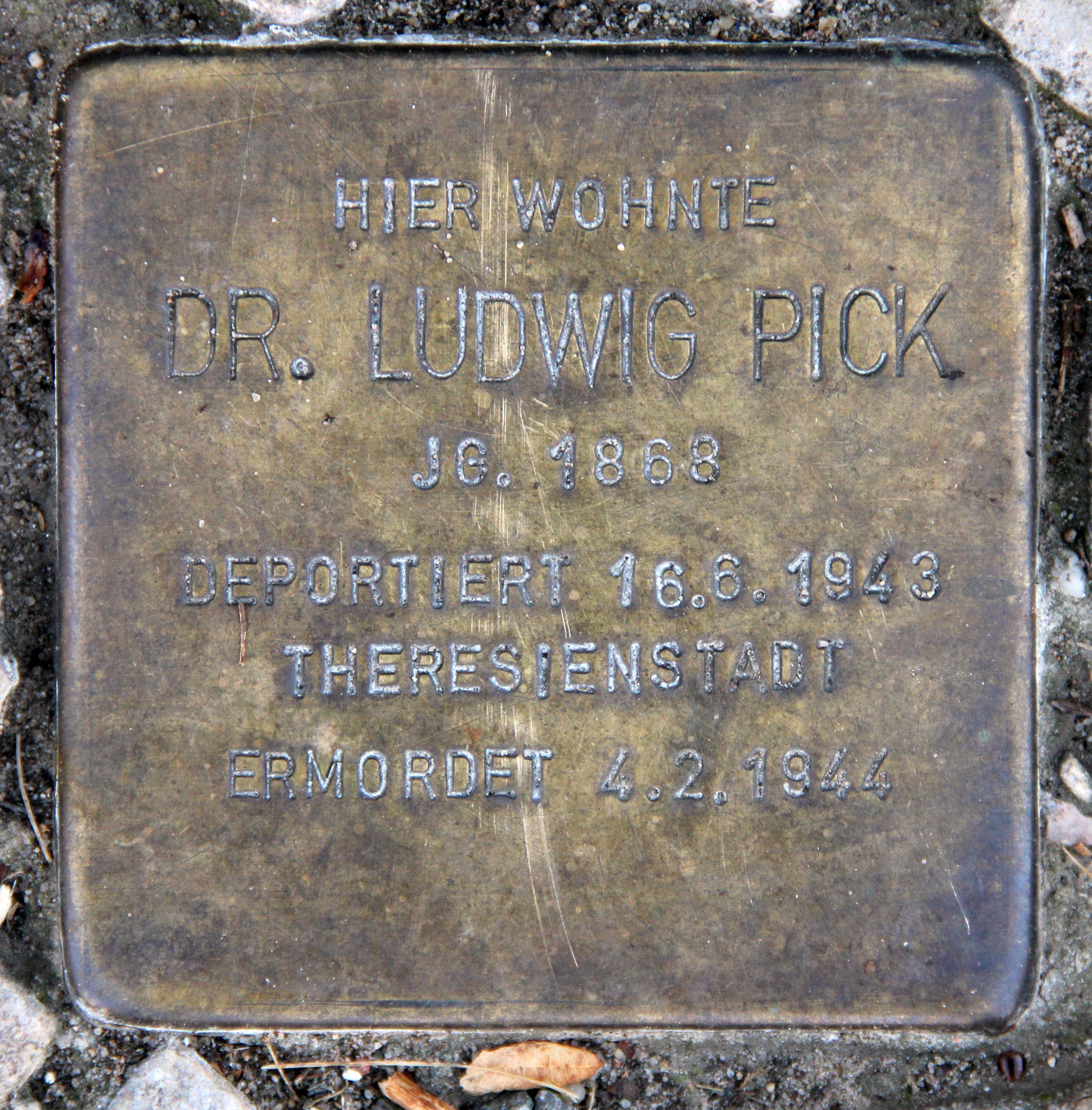 "Stolperstein" (stumbling block), Ludwig Pick, Kunzendorfstraße 20, Berlin-Zehlendorf, Germany